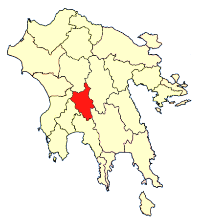 megalopoli province